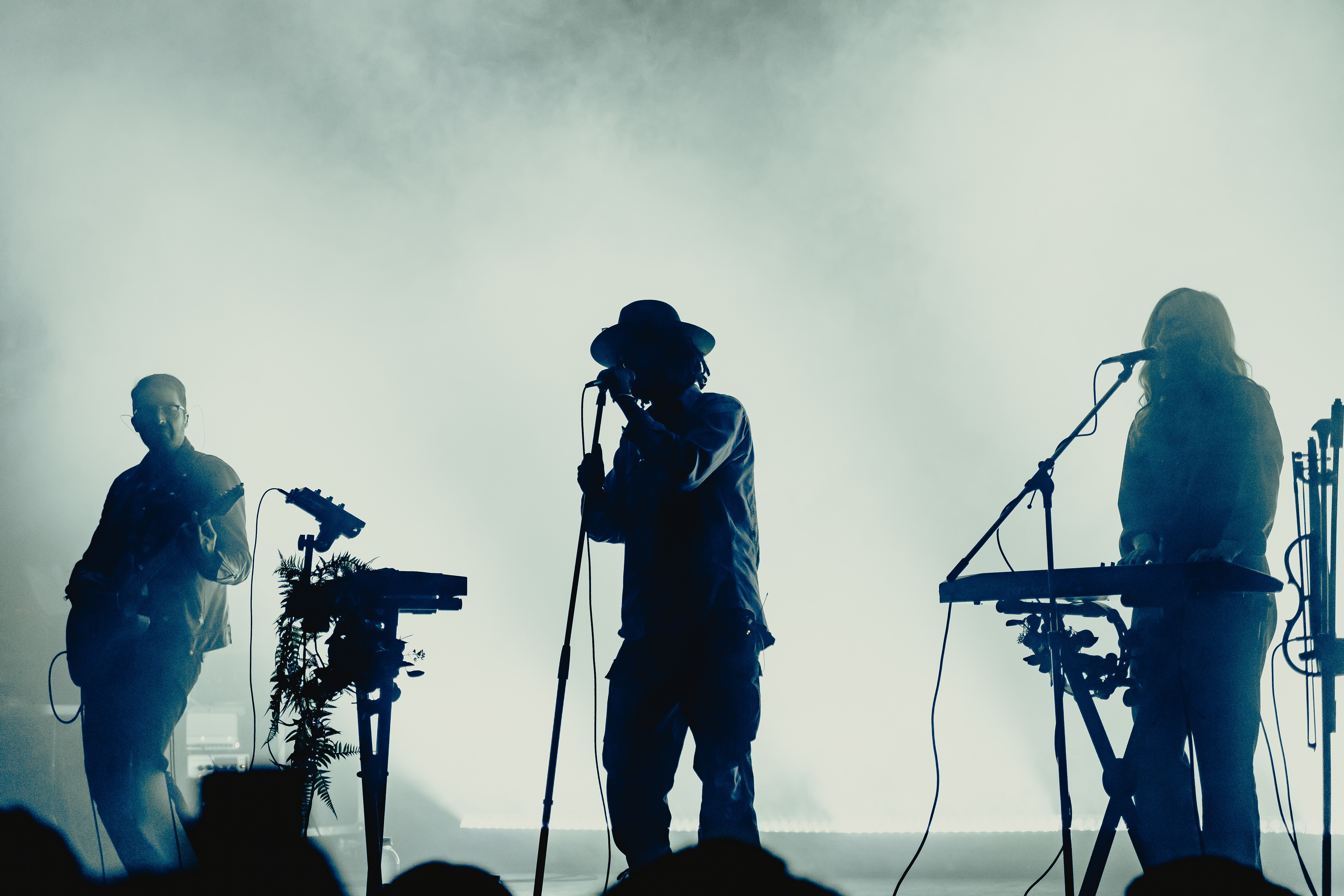 Chiiild live at the Phoenix Concert Theatre, Toronto.